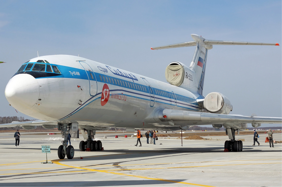 Siberia Airlines Tupolev Tu-154M